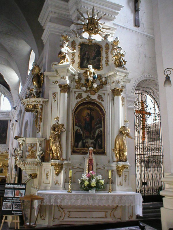 Holy Name of Jesus altar - Lublin Dominican Church. Baroque pulpit